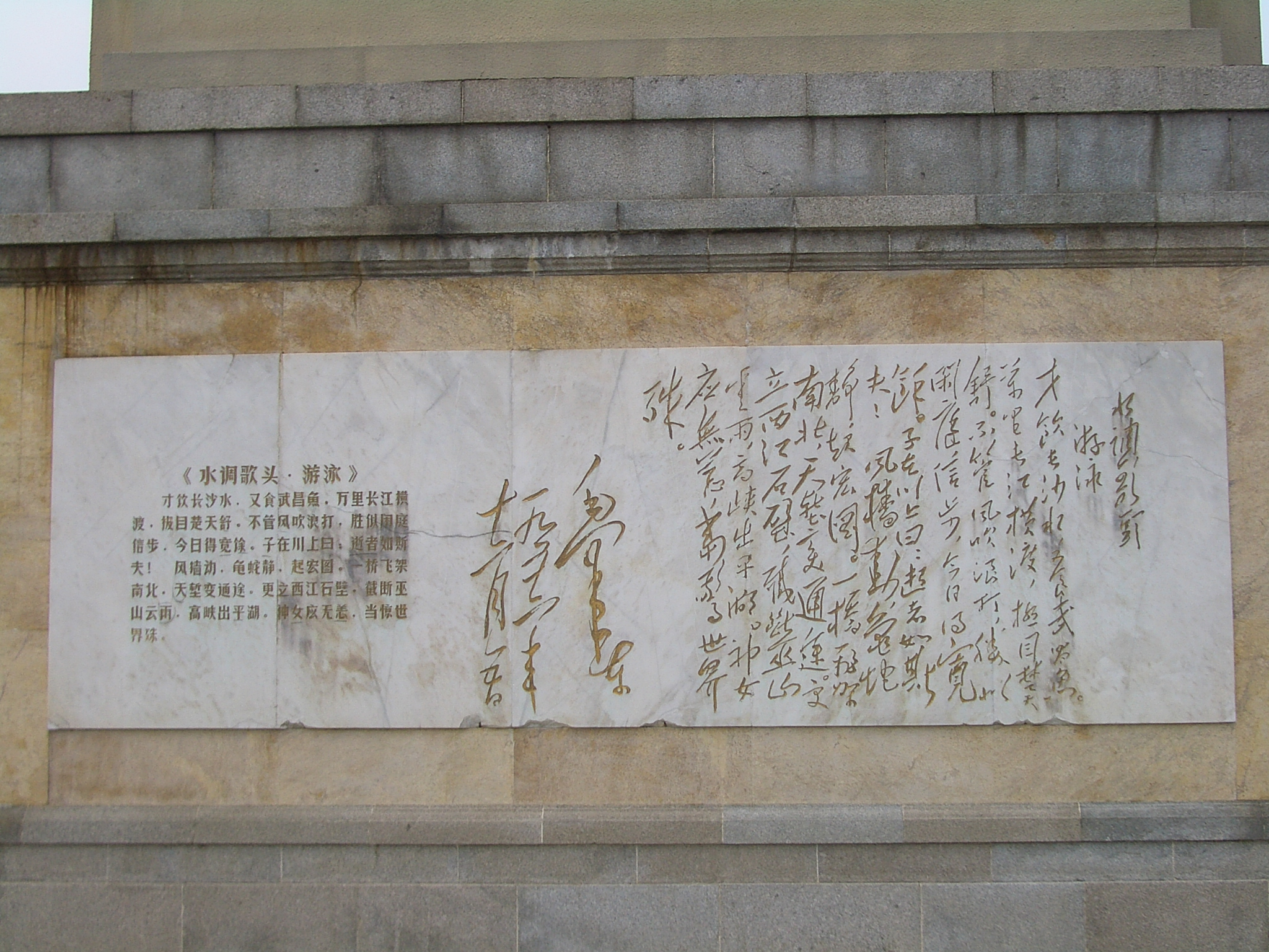 Monument to Wuhan's people overcoming the Yangtze Flood of 1954, with Mao Zedong's inscription